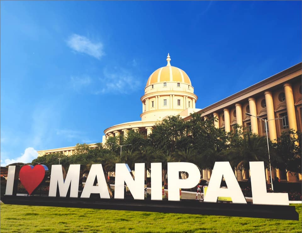 The selfi point at MUJ